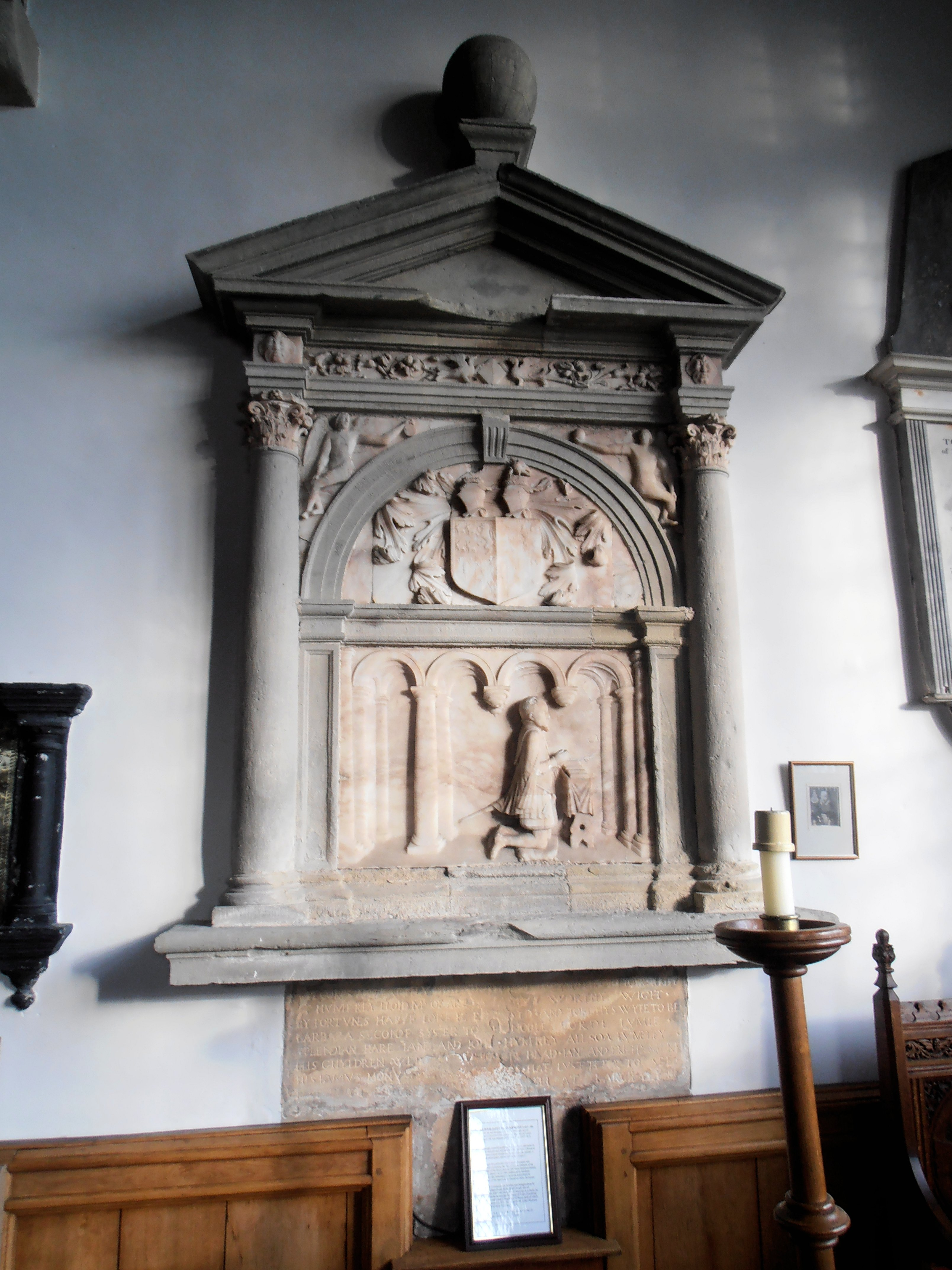 St Marcella's Church, dinbych, denbigh, North Wales